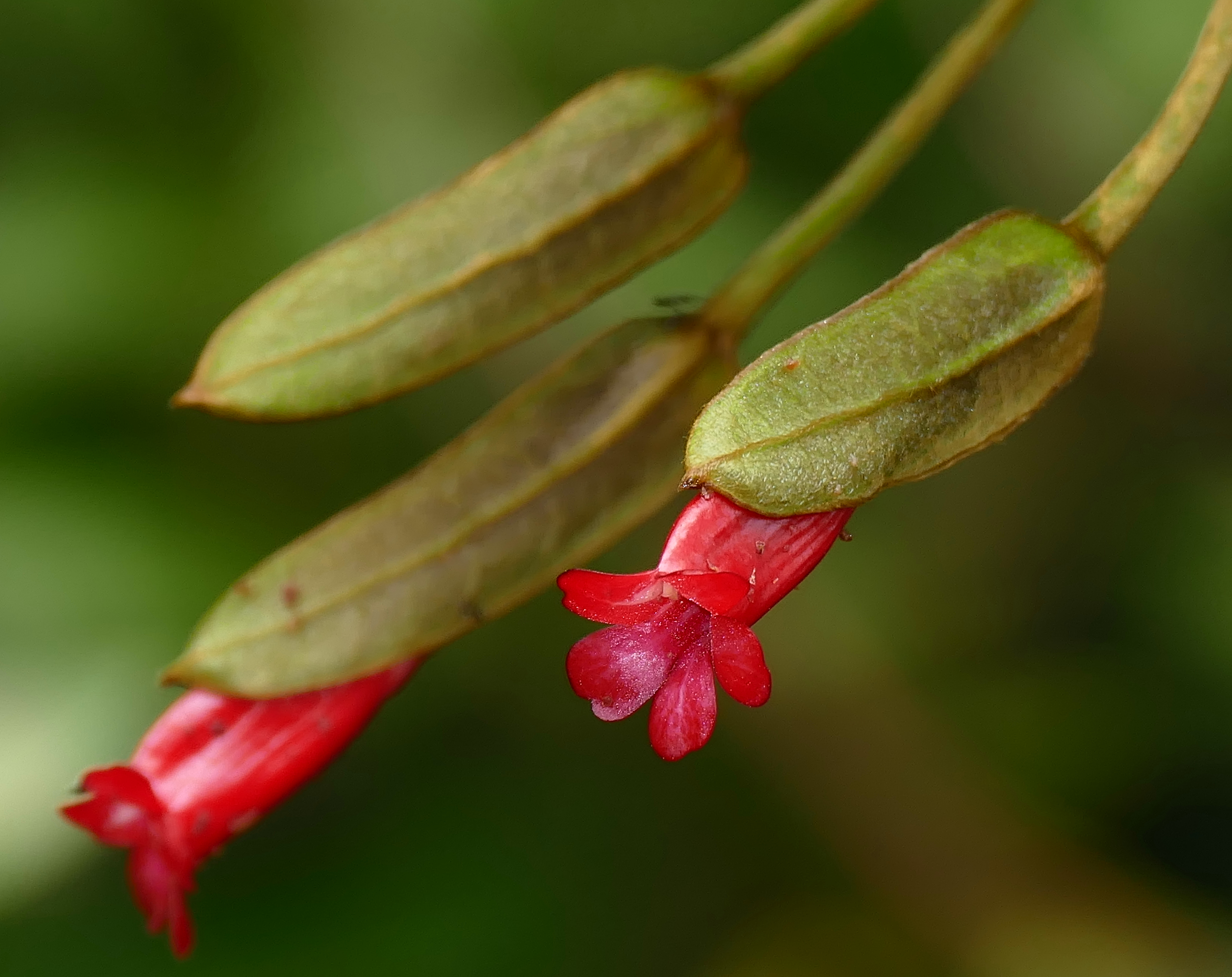 Mendoncia hoffmannseggiana, D6 Route de Kaw, Roura, French Guyana, France